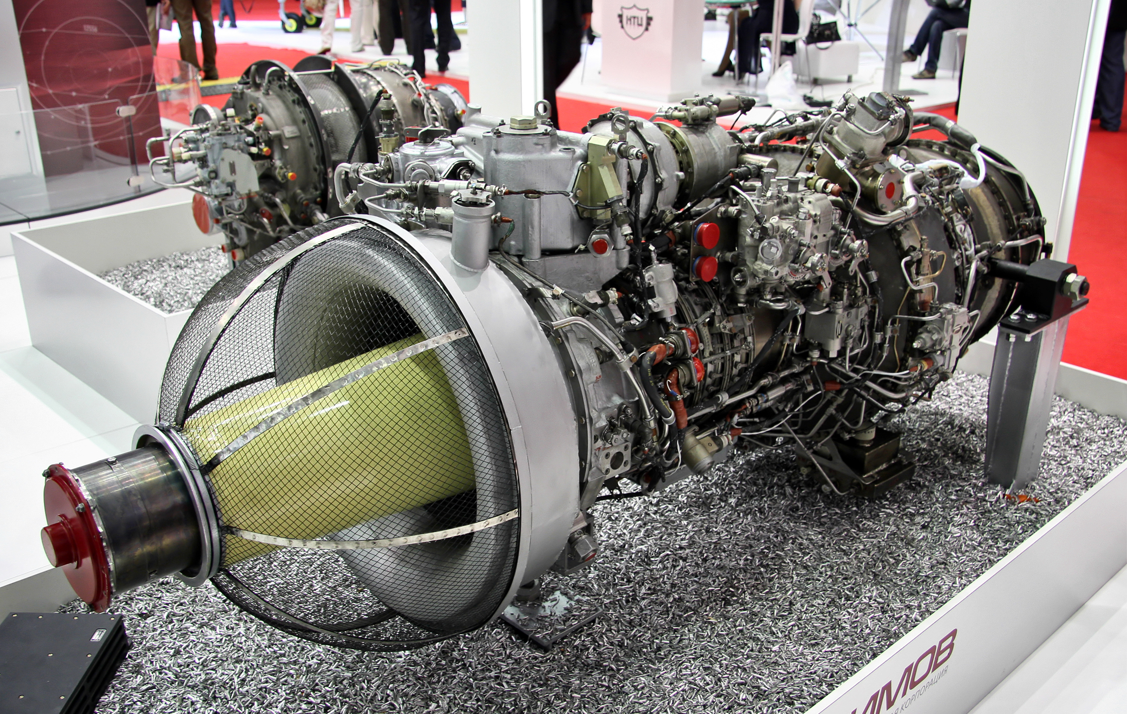 TV7-117V engine for Mi-38 in 4rd International Helicopter Industry Exhibition HeliRussia 2011